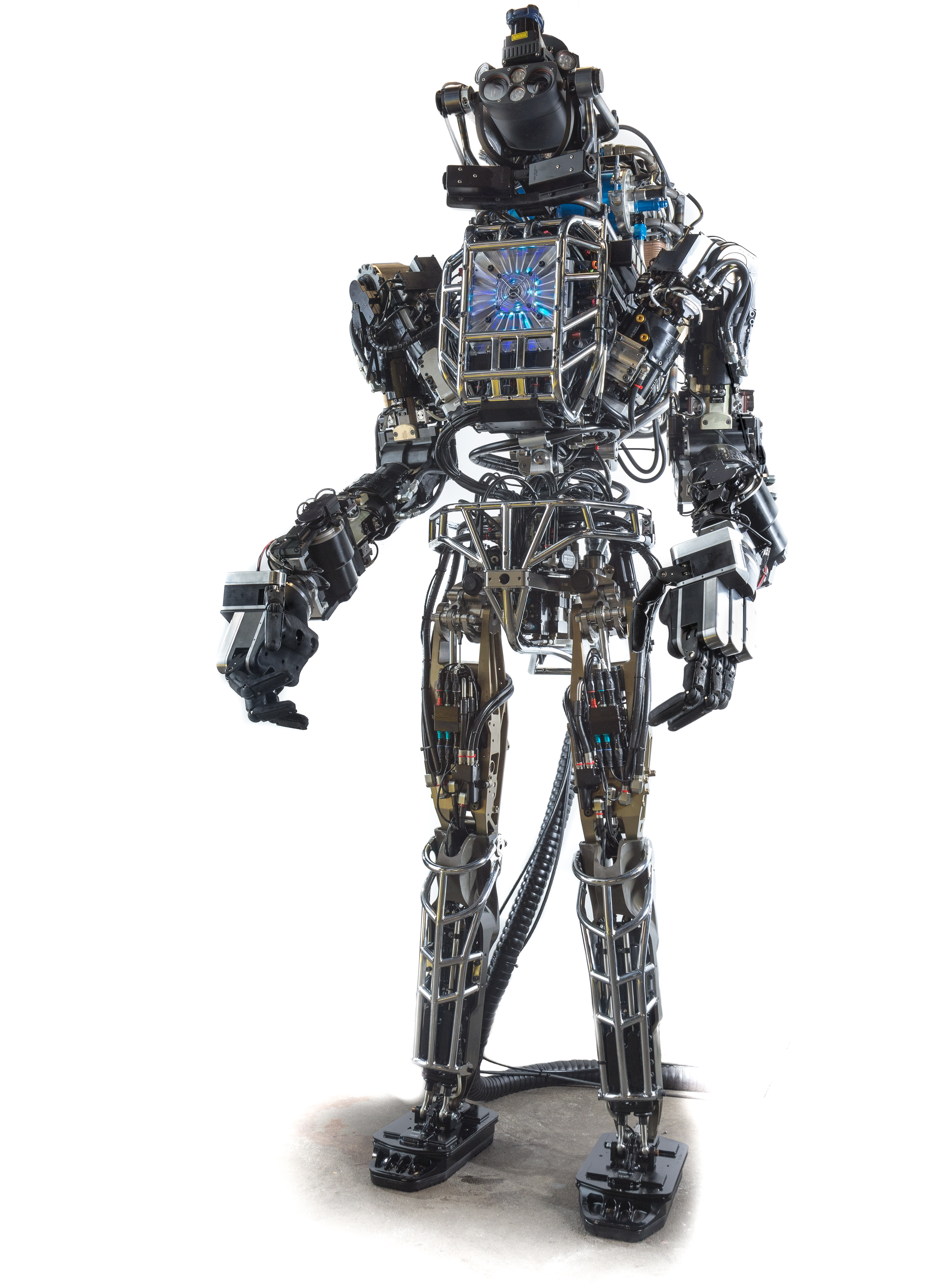 Front view of the humanoid robot Atlas, created by DARPA and Boston Dynamics